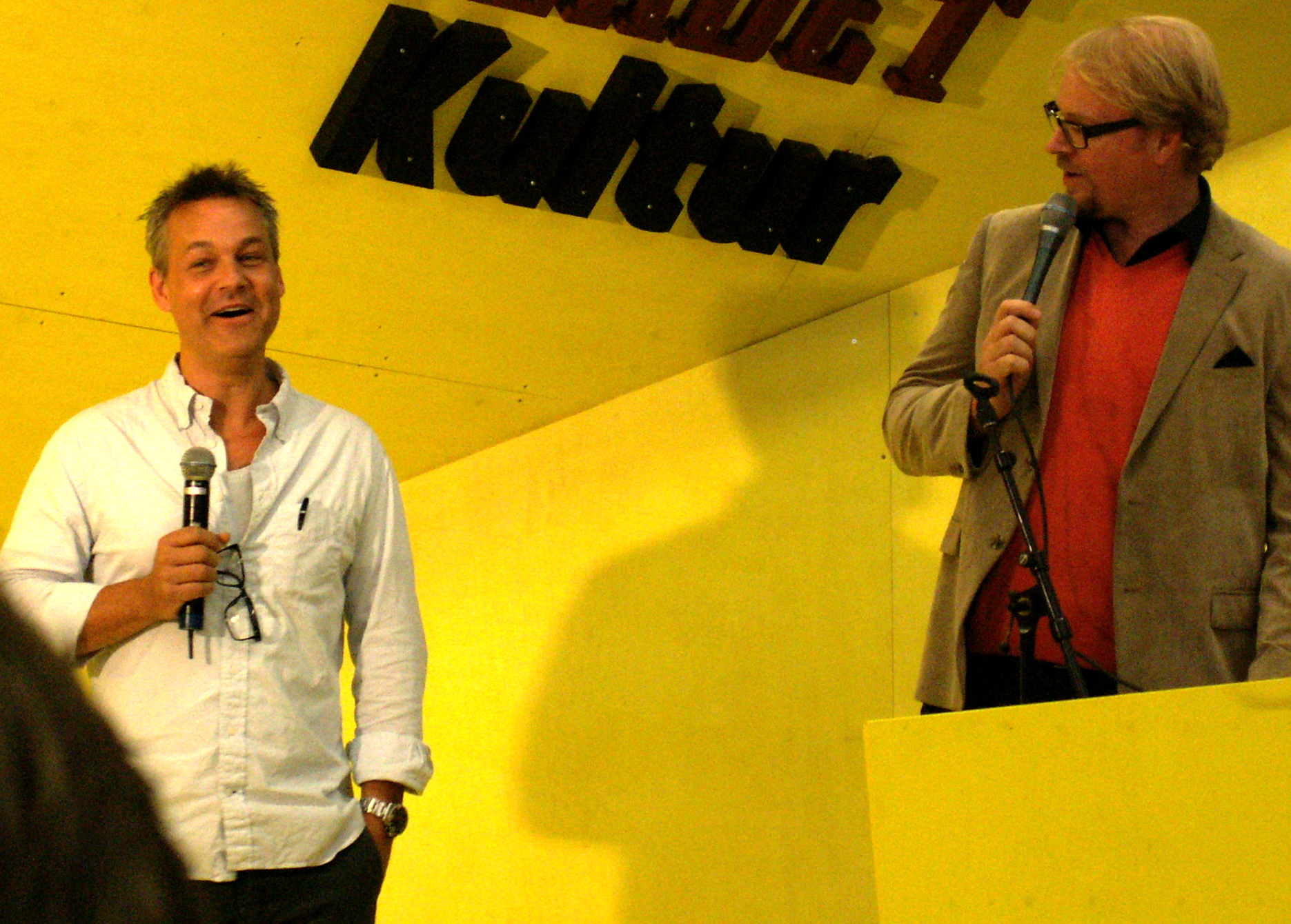 Henrik Schyffert and Fredrik Lindström at the 2011 Göteborg Book Fair (Sep.), presenting their Ljust&Fräscht-boken.